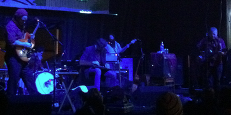 Baptist Generals performing at 35 Denton, March 9th 2012